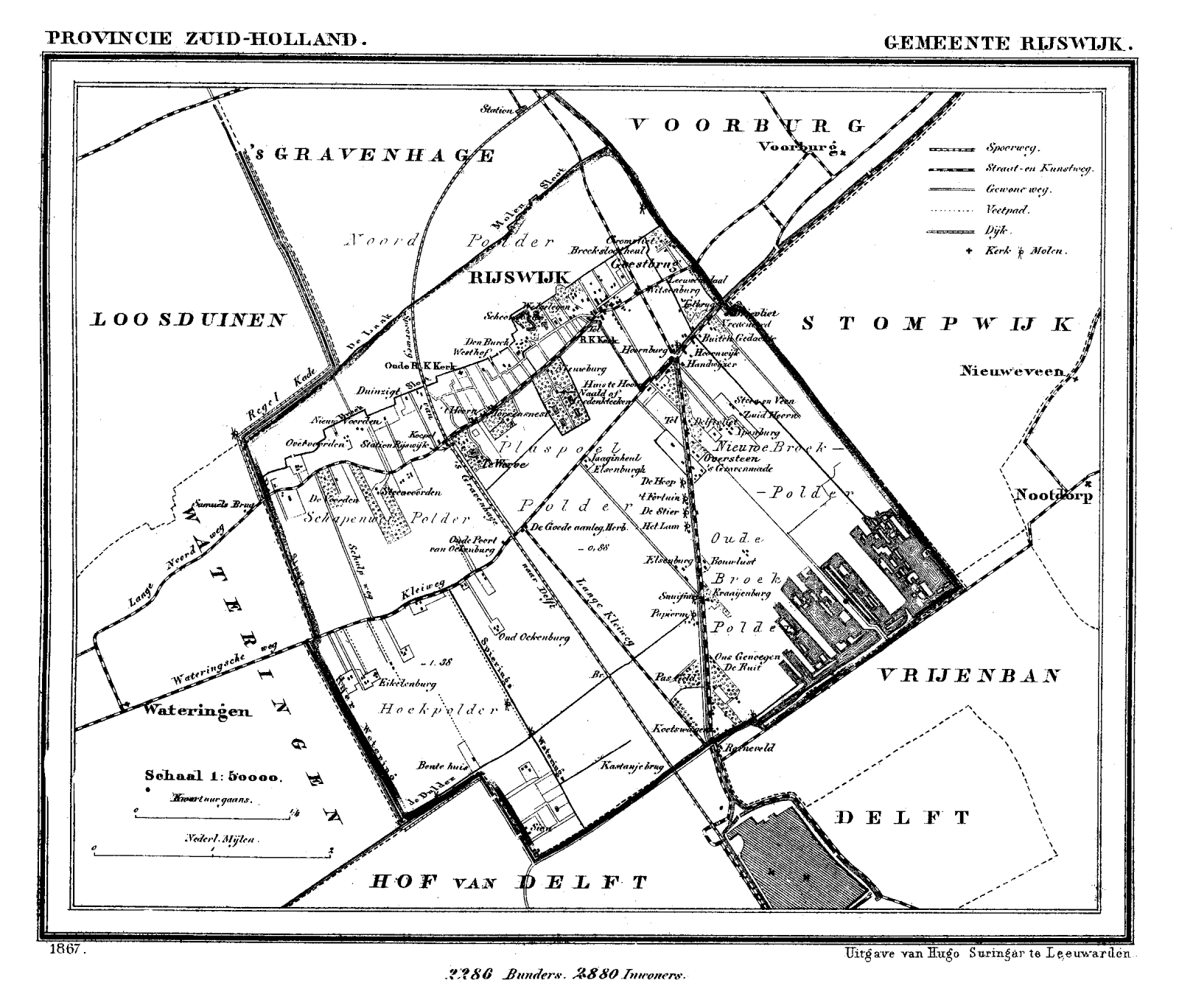 Historic map of Rijswijk, South Holland, the Netherlands